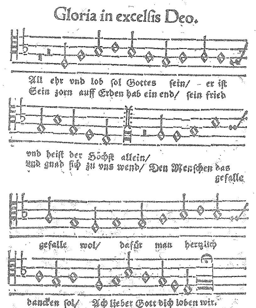 The melody of Allein Gott in der Höh' from Luther's hymnbook, Bresslau 1577, adapted from the Gloria by Nikolaus Decius in 1522